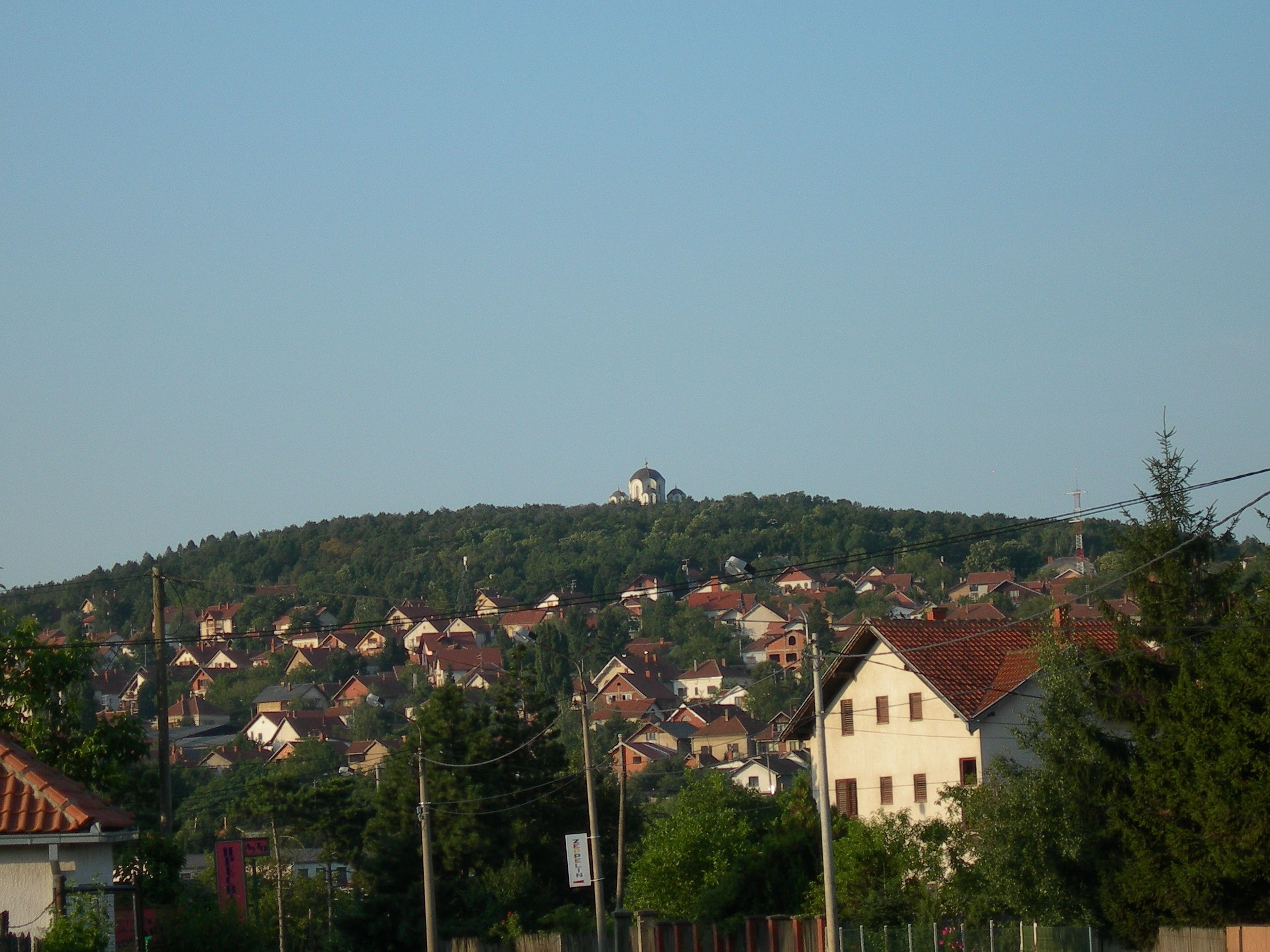 Oplenac